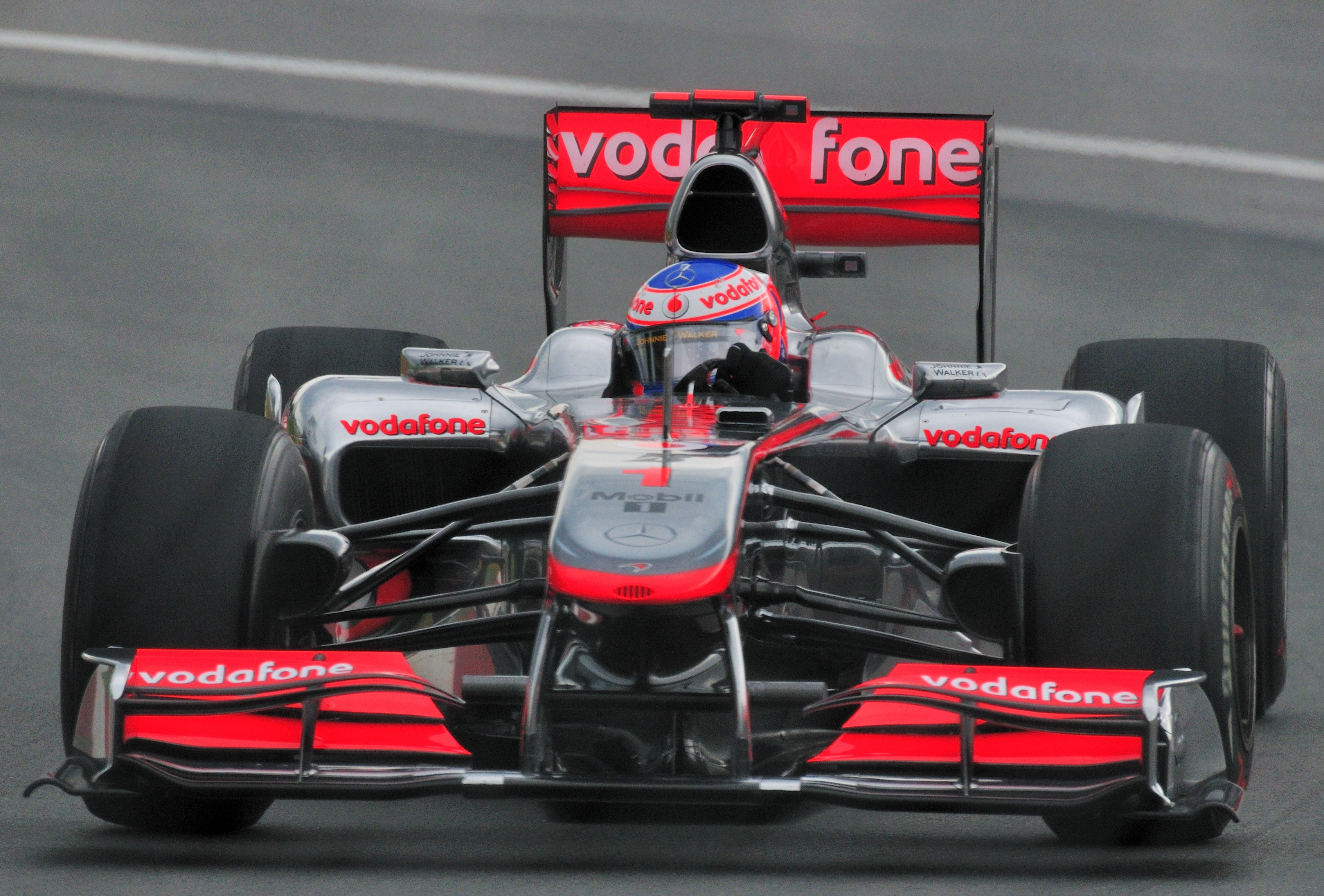 McLaren Mercedes driver Jenson Button of England in the Senna Corner (2010 Montreal GP)